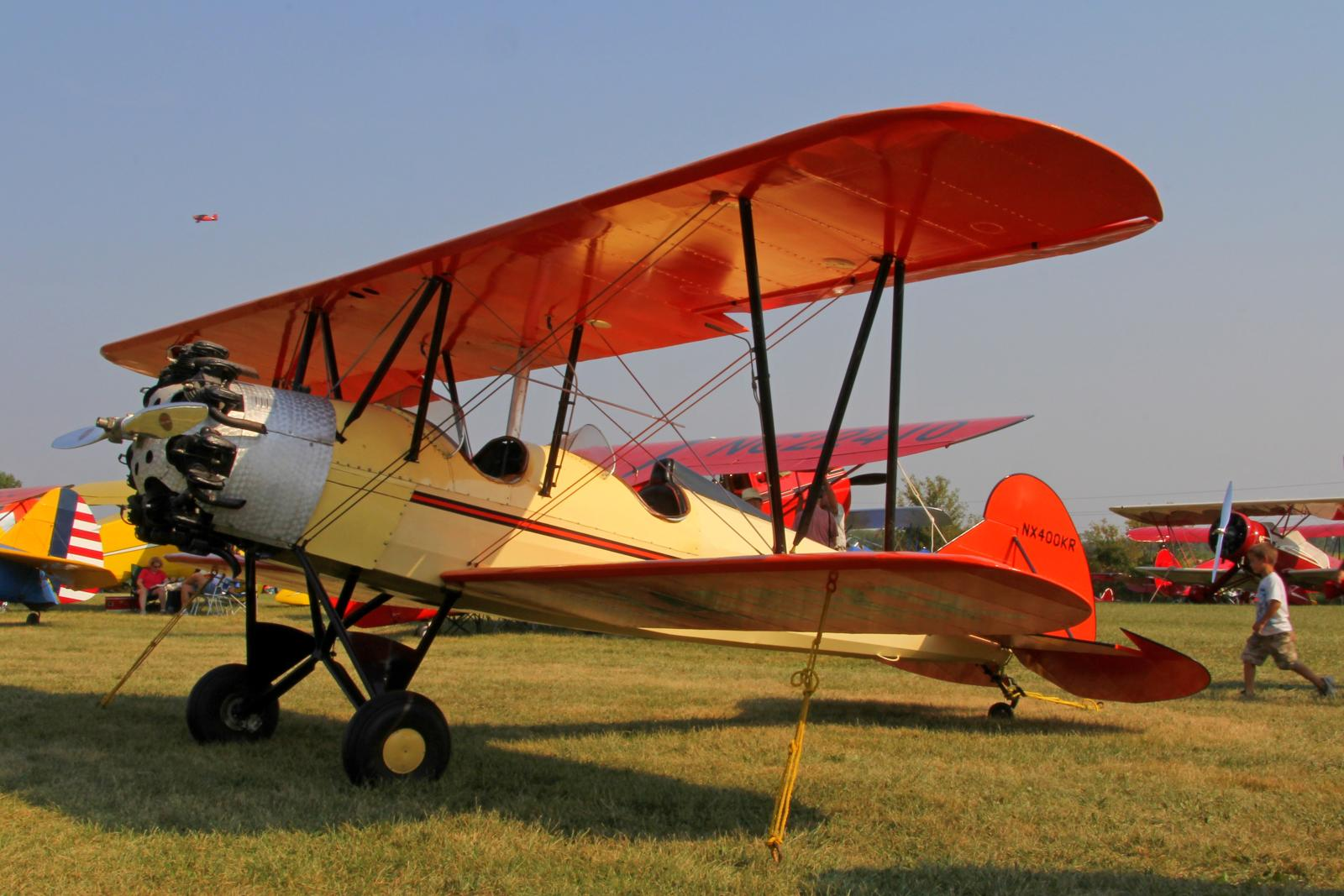 1964 Robinson MERE-MERIT C/N A-01